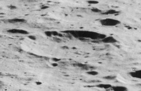 Oblique view of Gavrilov crater, facing west